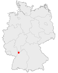 Position of Heidelberg in Germany